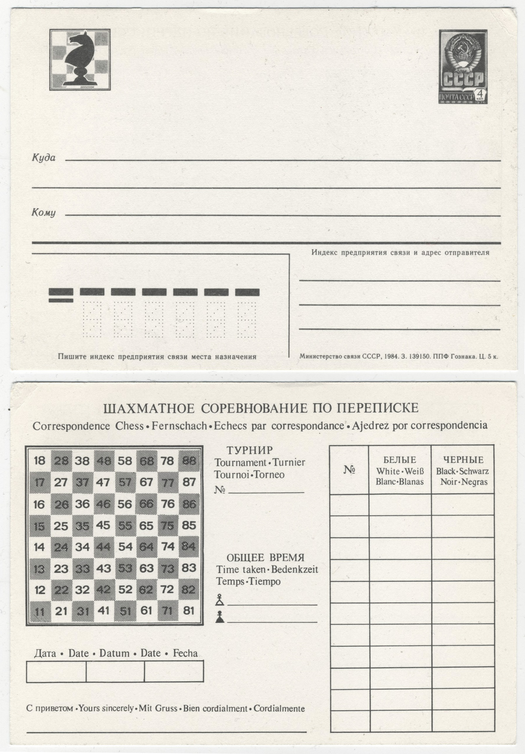 Soviet postcard for correspondence chess. Front and back side.